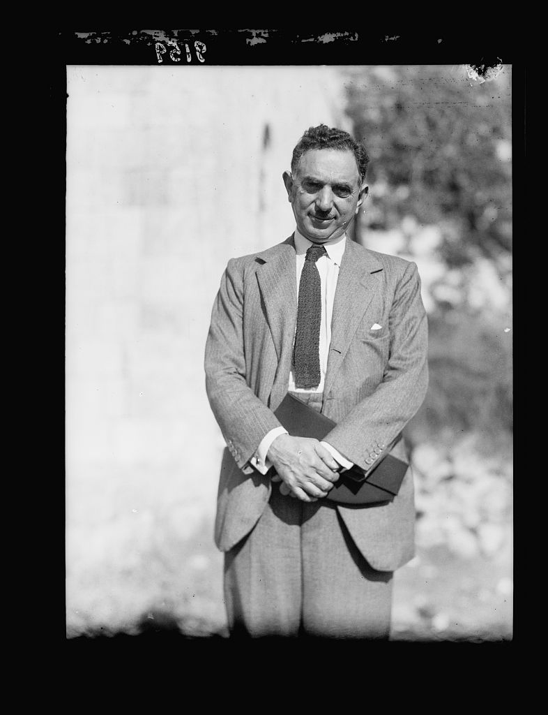 Nuri Pasha Es-Said